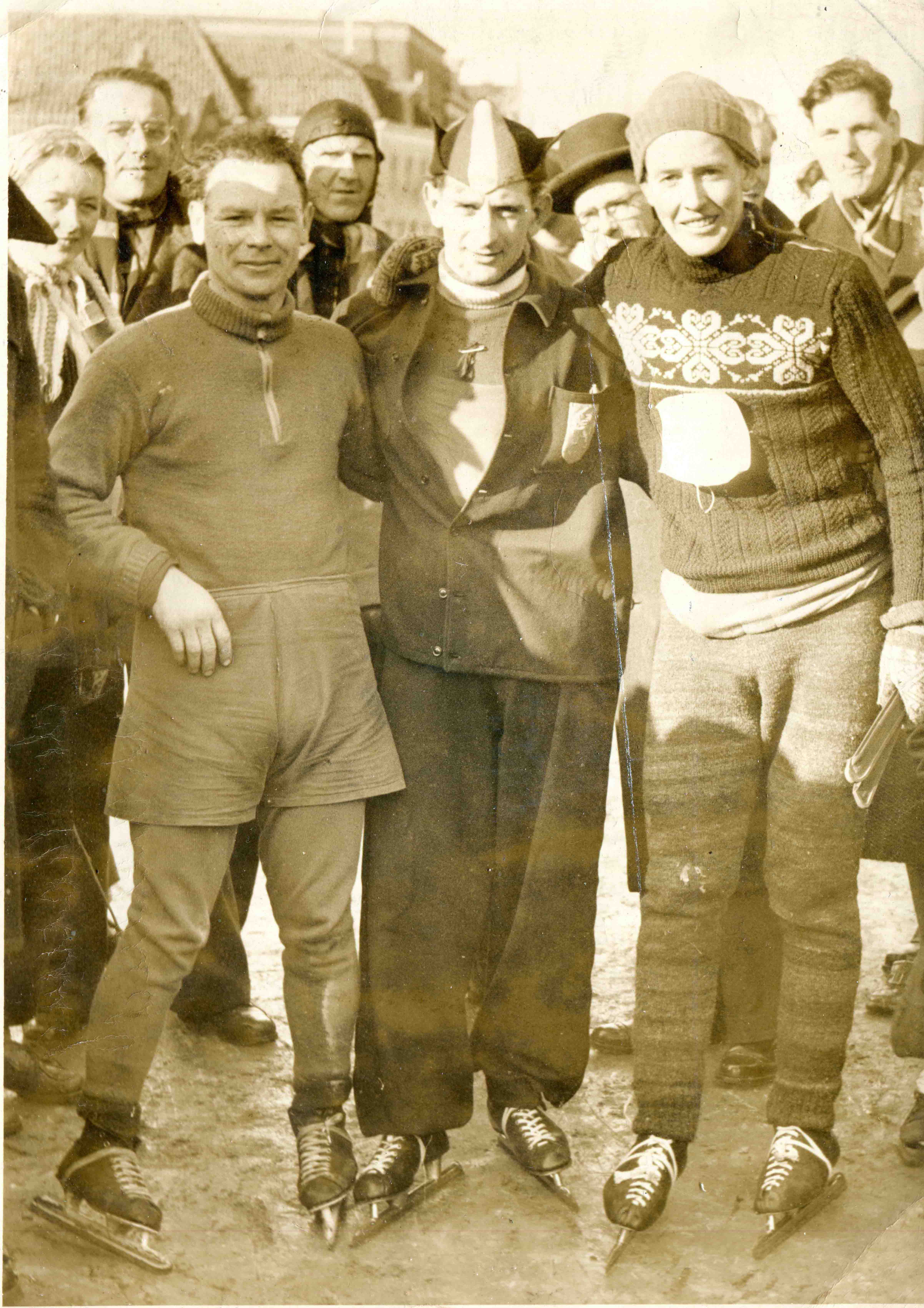 Winnaar NH-dorpentocht over 100km